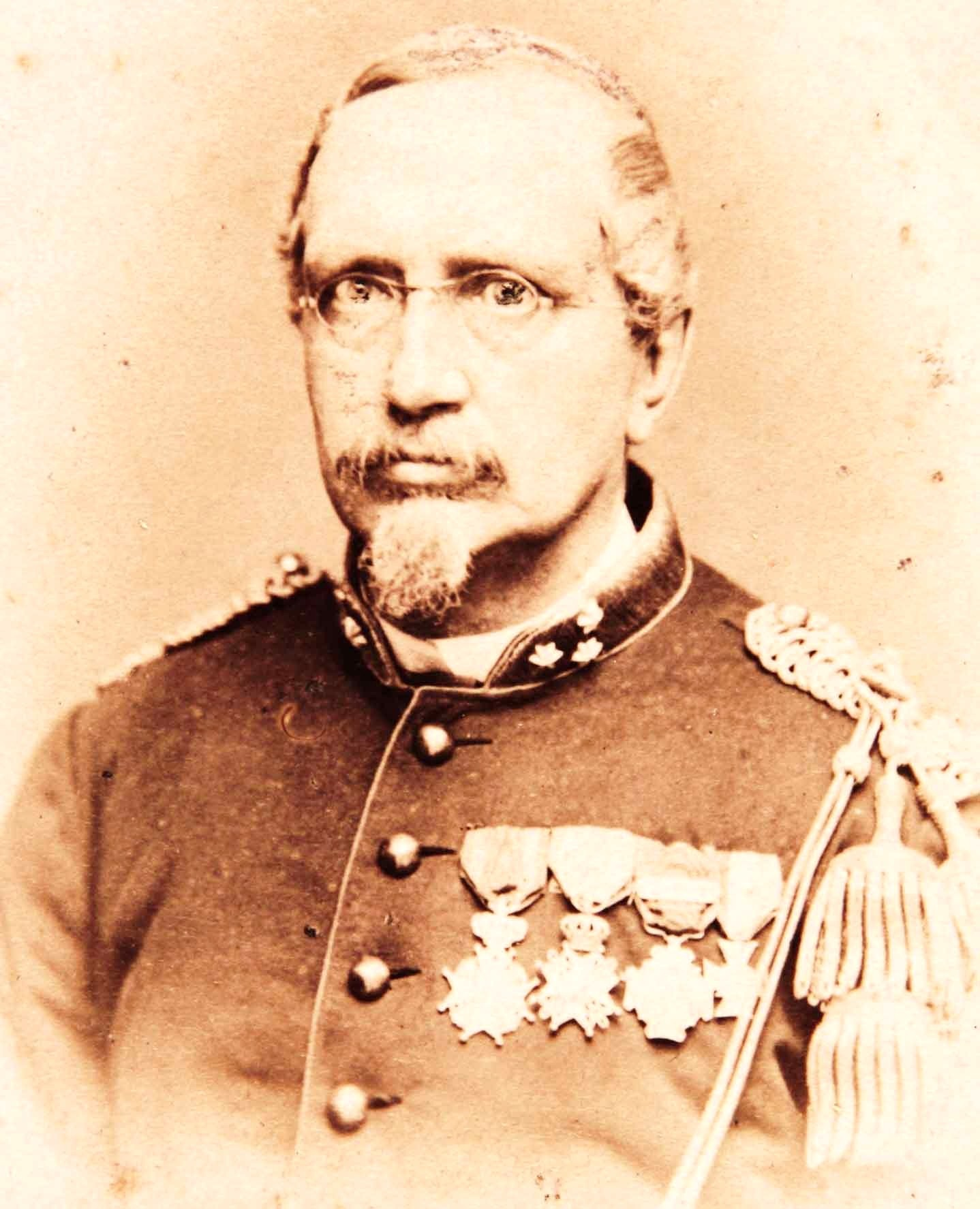 Van Daalen, E.C.